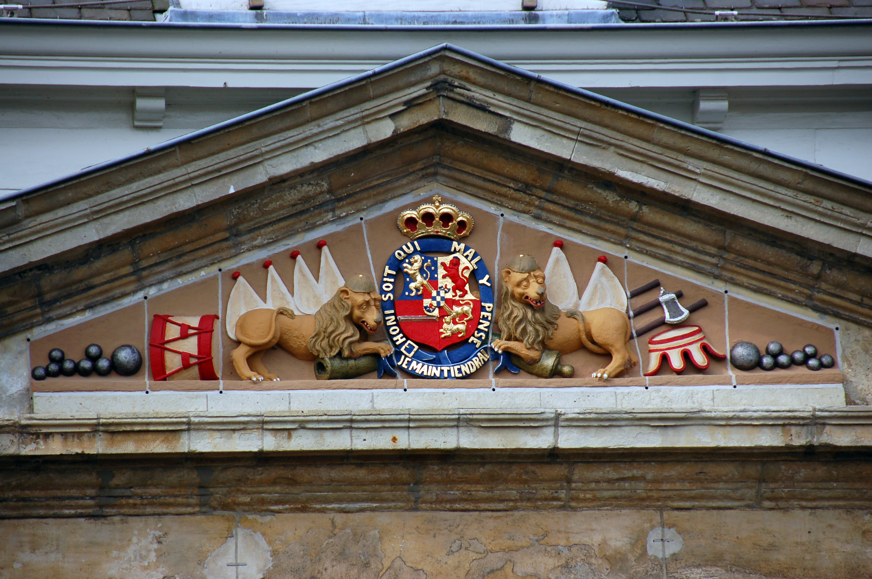 CoA of William I the Silent, pediment above the main entrance of the castle of Breda, the Netherlands.